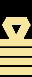 Ship captain epaulette